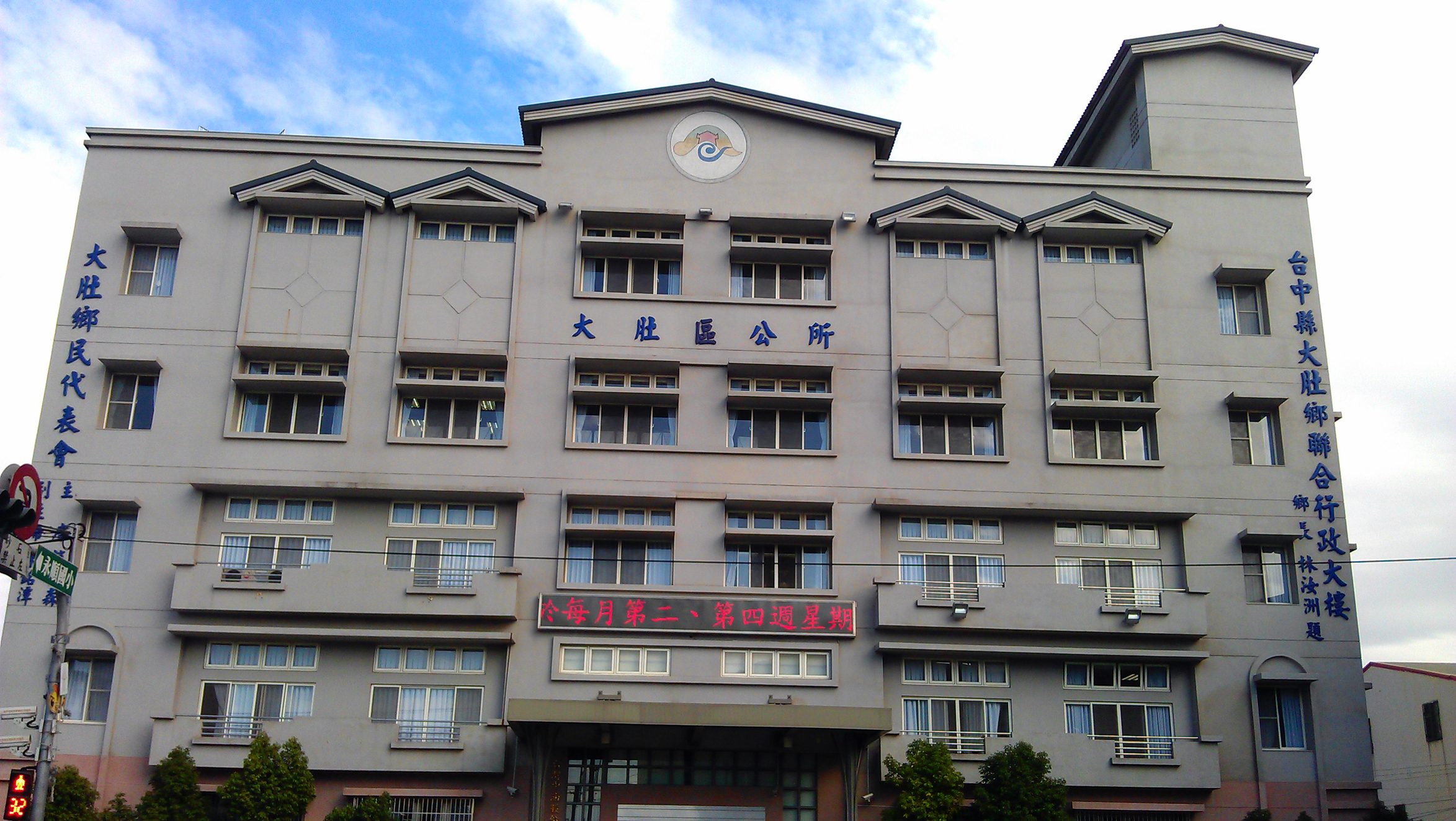 Dadu District Administration Building, Taichung City.